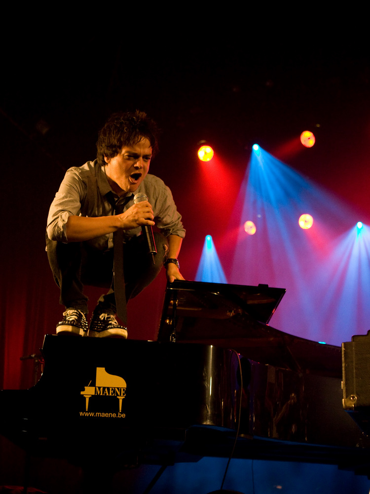 Jamie Cullum in a 2011 performance